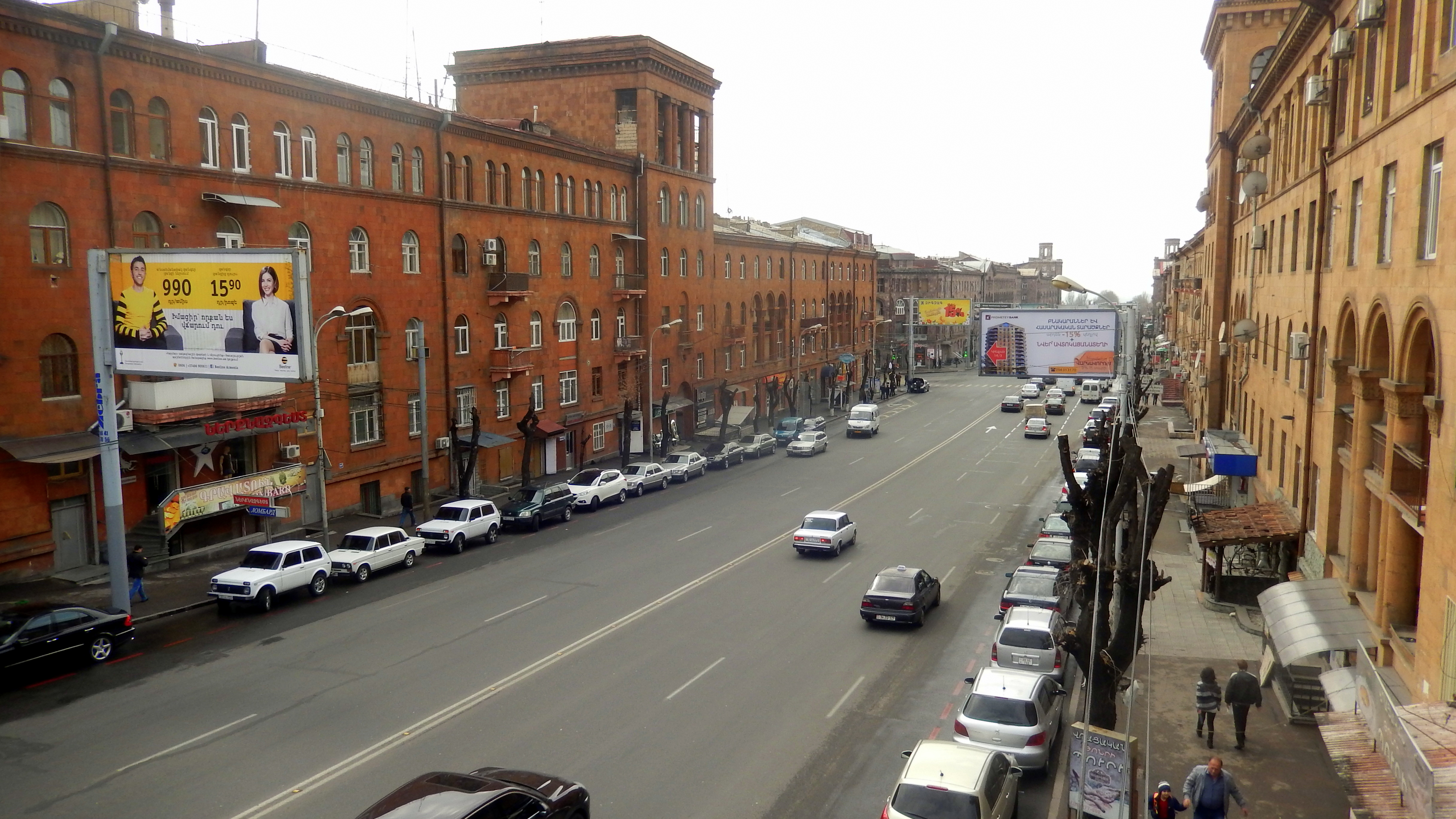 Kievyan Street, Yerevan